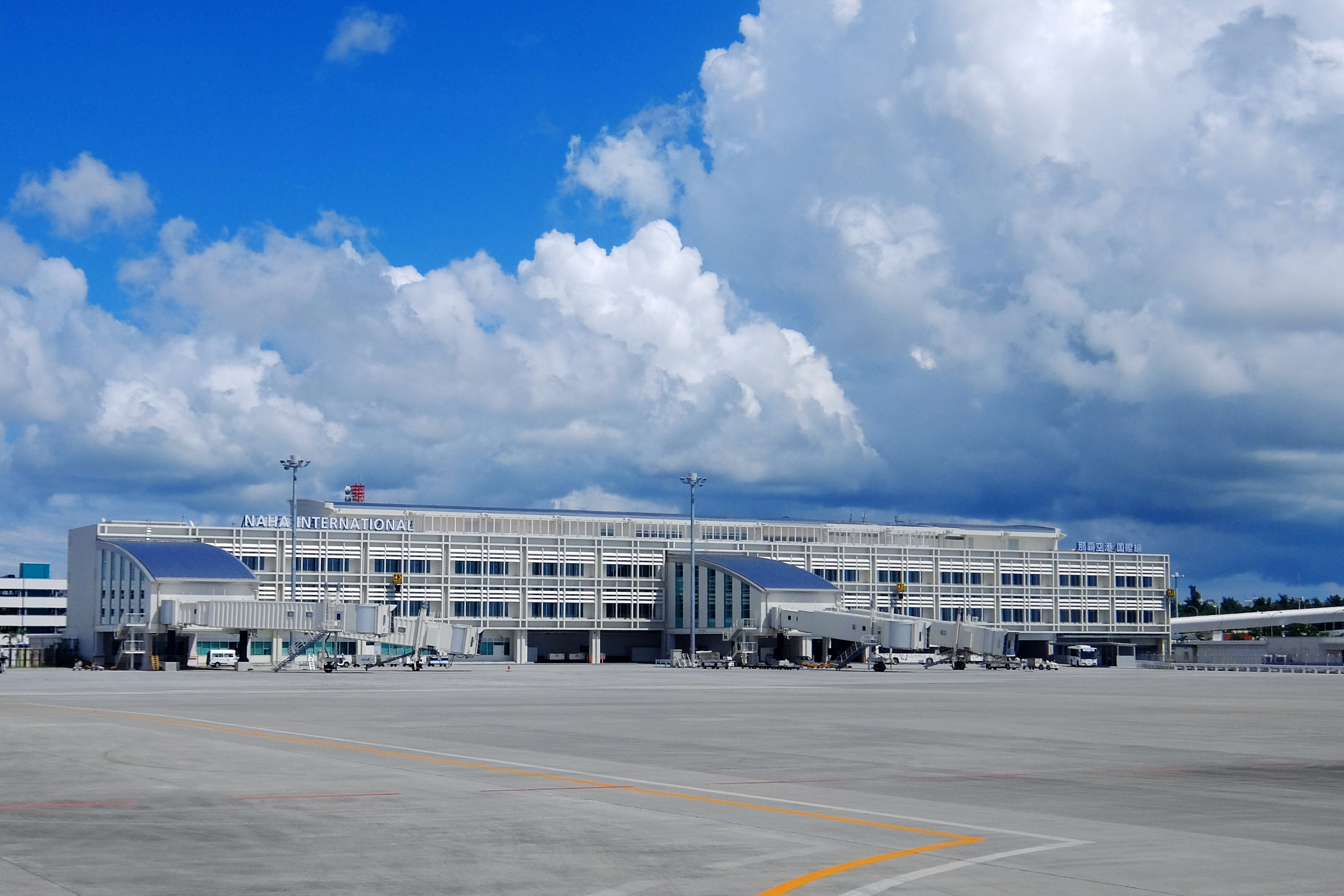 Naha Airport in Naha, Okinawa prefecture, Japan.